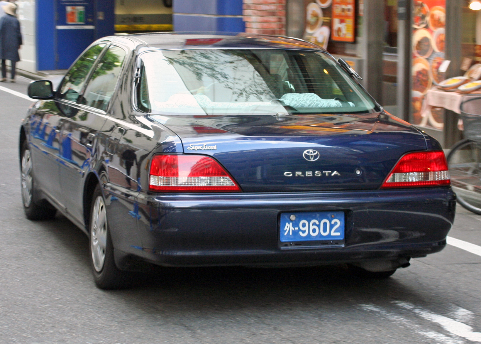 Fifth generation Toyota Cresta Super Lucent with Japanese diplomatic license plates (presumed Mongolia)